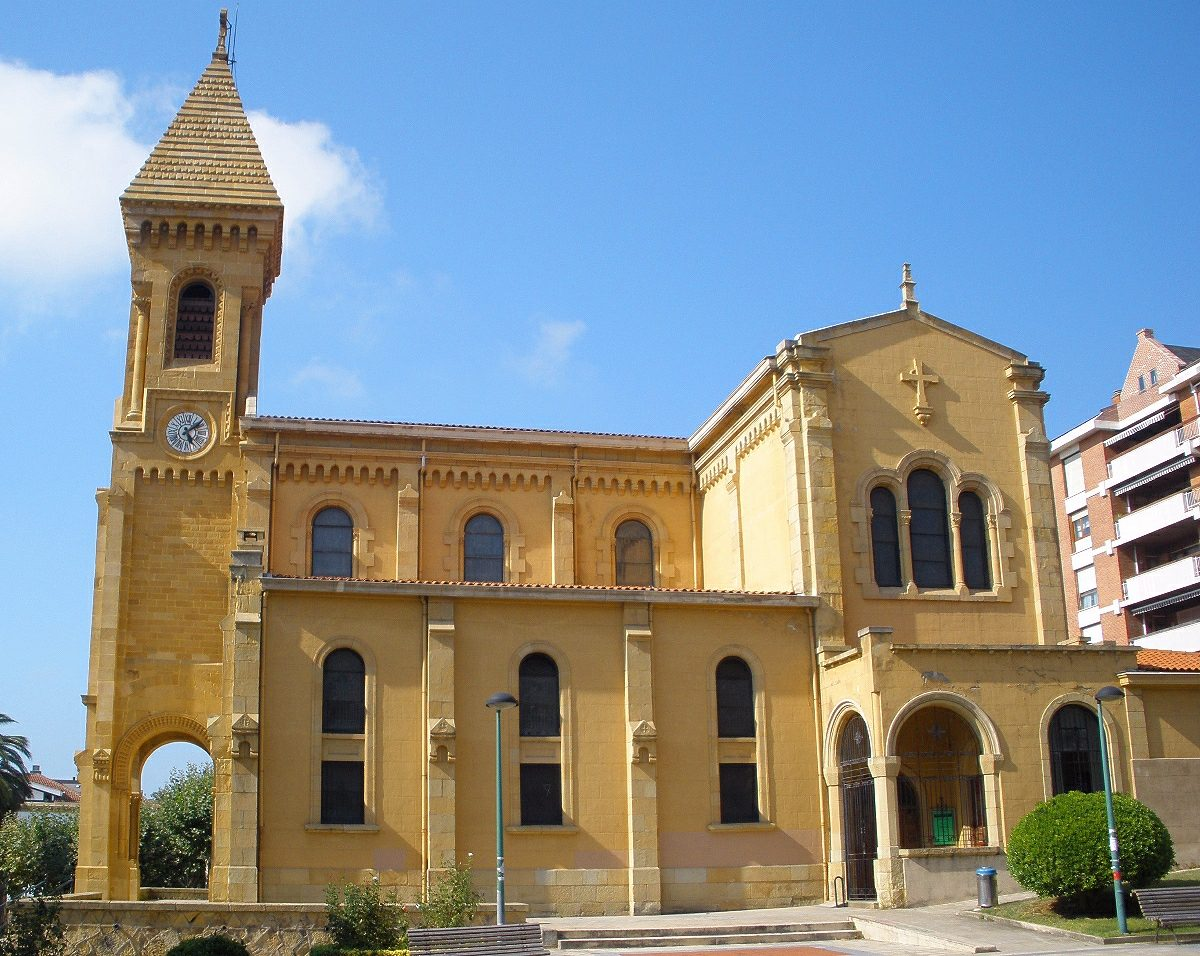 Iglesia de San Ignacio de Loyola, en Algorta, Gecho (Vizcaya)